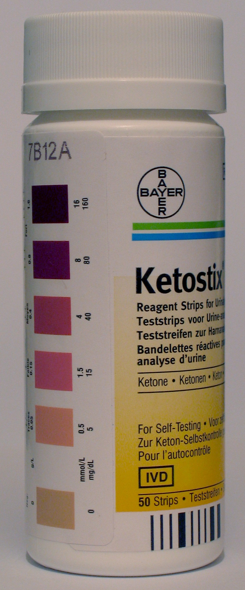 Bayer Ketostix reagent strips for urinalysis.